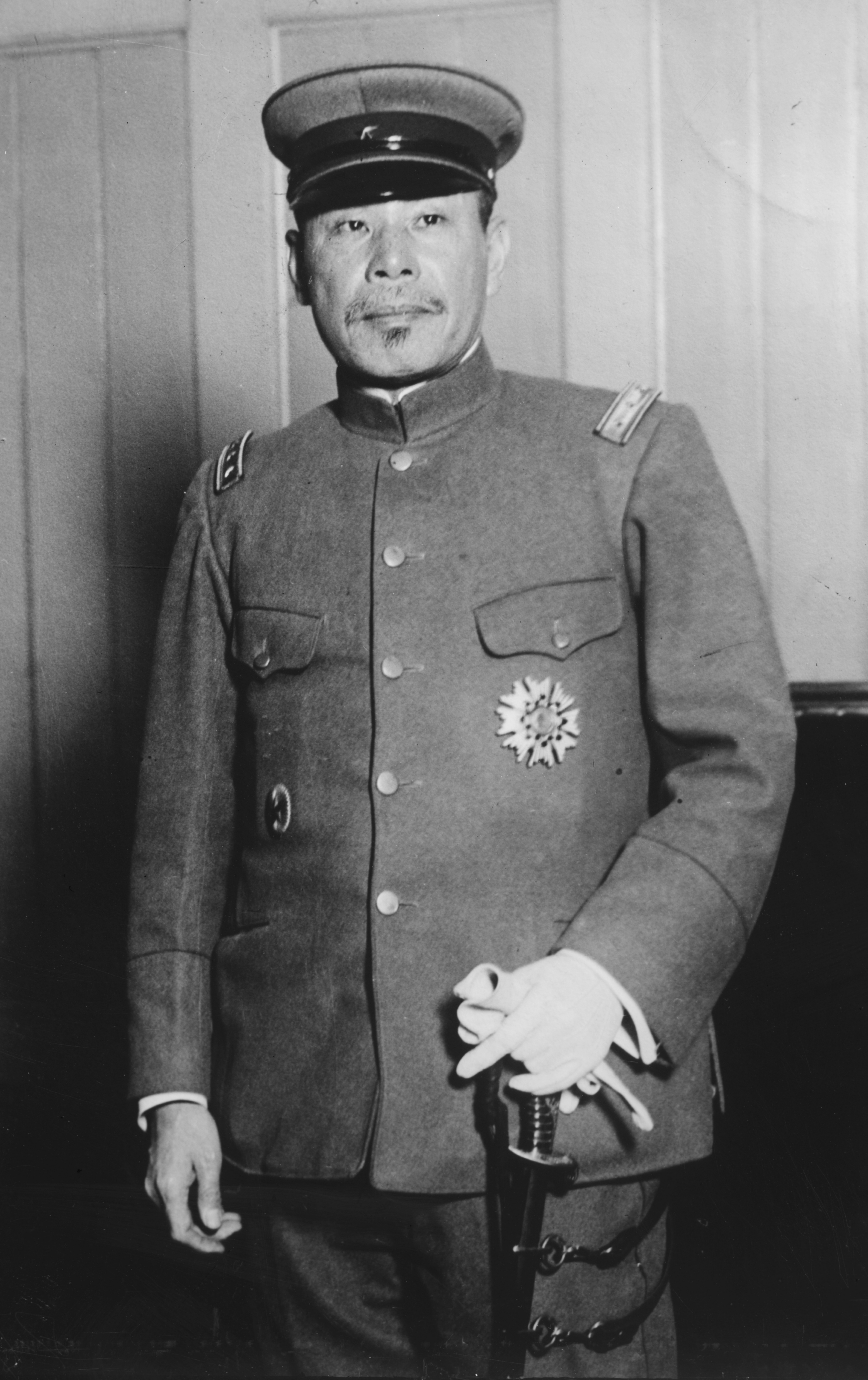 Title: Gen. Tachibana Abstract/medium: 1 negative : glass ; 5 x 7 in. or smaller.